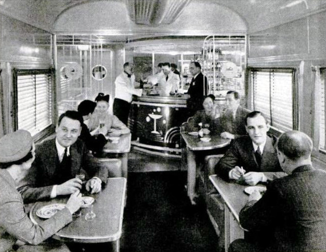 Photo of the Southern Pacific Railroad's tavern lounge car on their new train, the Daylight.